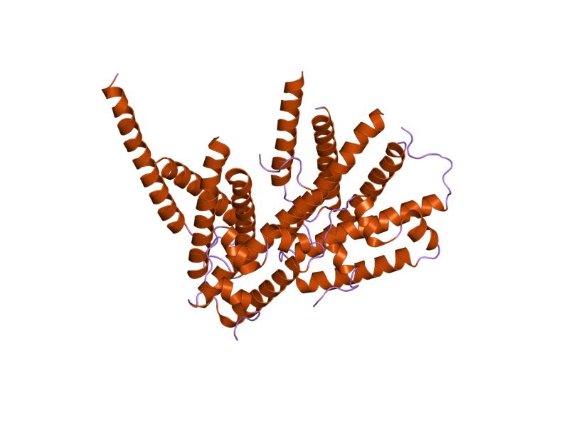 Cartoon representation of the molecular structure of protein registered with 2caz code.